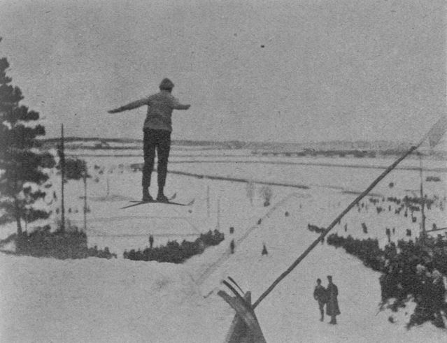 Ski jumping at the 1910 Vyborg Winter Games in Finland.